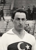 Cropped version of File:Egypt-Turkey 1928 Summer Olympics.jpg